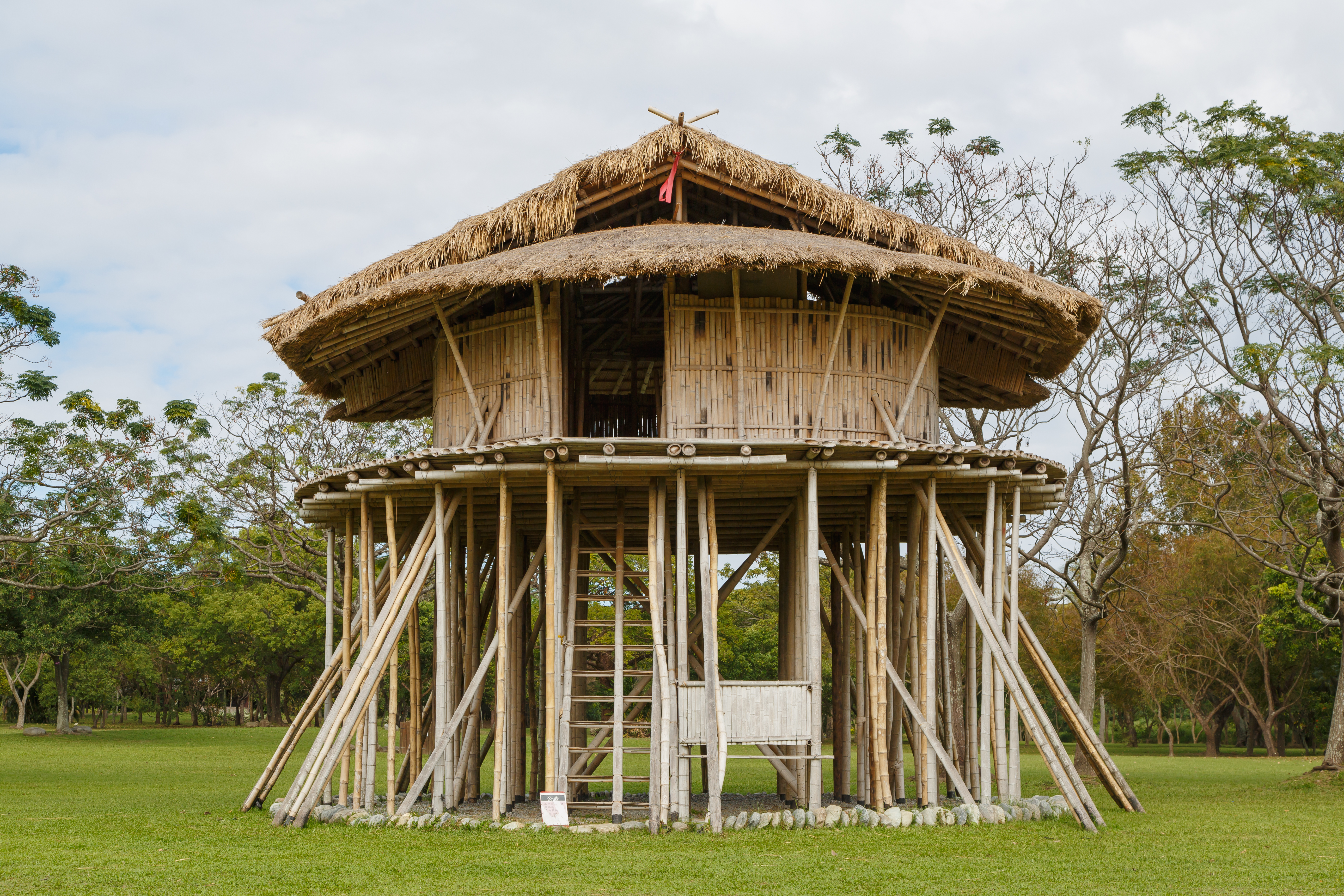 Beinan Township, Taitung, Taiwan: The traditional stilt house of the Beinan people, one of the 16 aboriginal tribes of Taiwan.